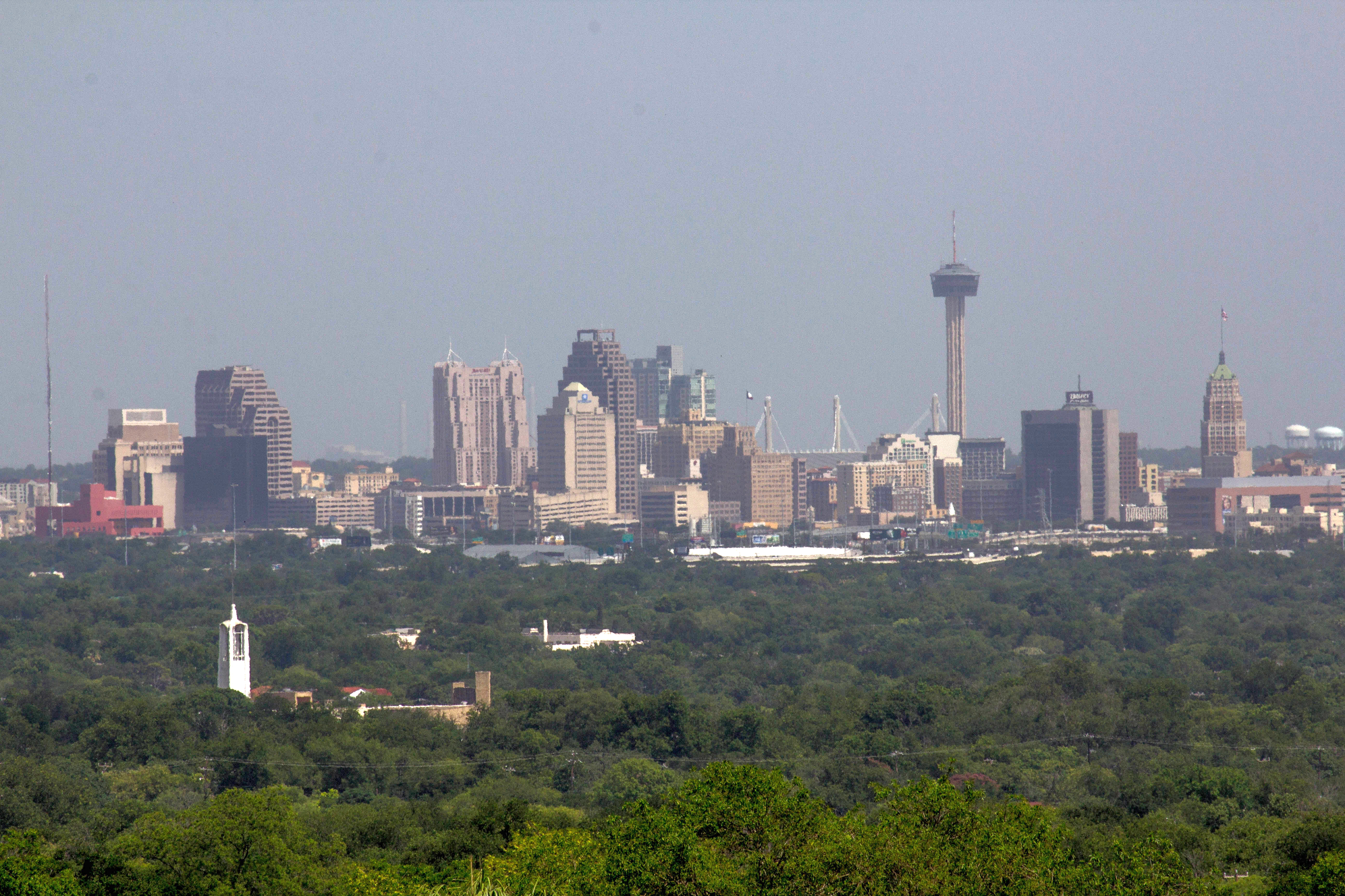 San Antonio Skyline 7/3/14